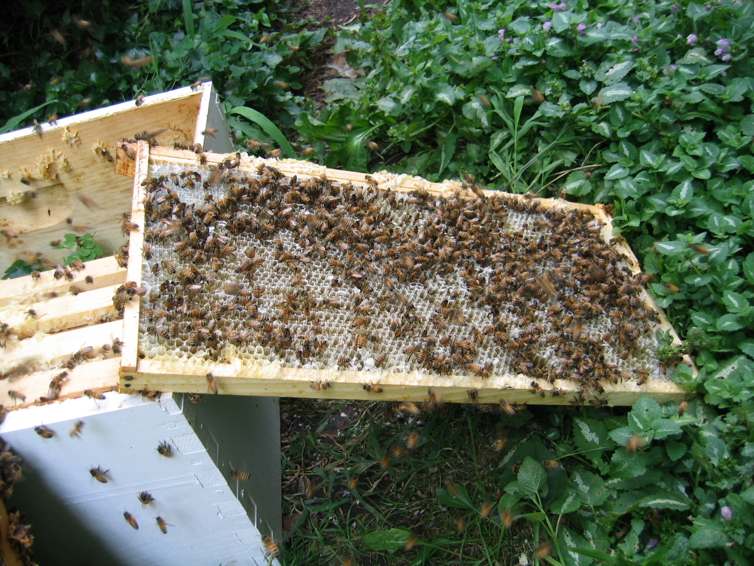 Honey bees cleaning the last of the honey off of a comb which has been processed.